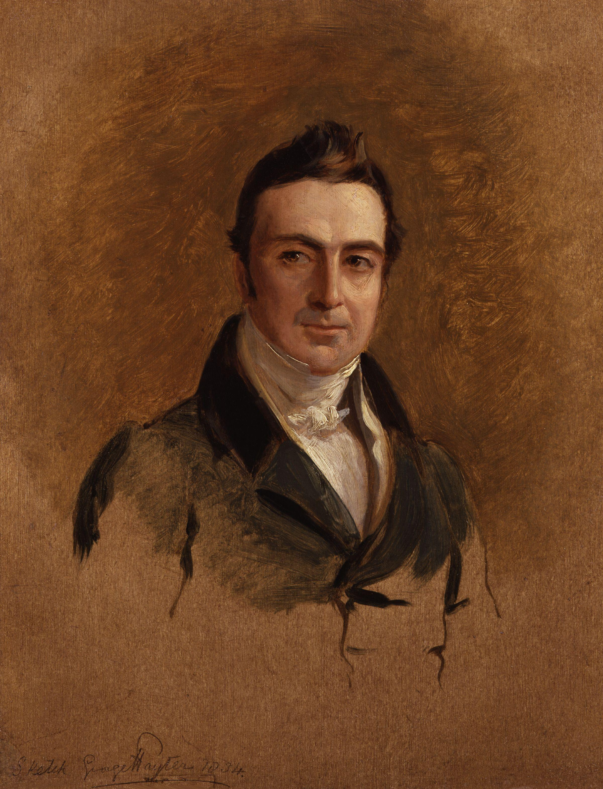 Sir George Elliot, by Sir George Hayter (died 1871), given to the National Portrait Gallery, London in 1931. All images in this batch have been confirmed as author died before 1939 according to the official death date listed by the NPG.